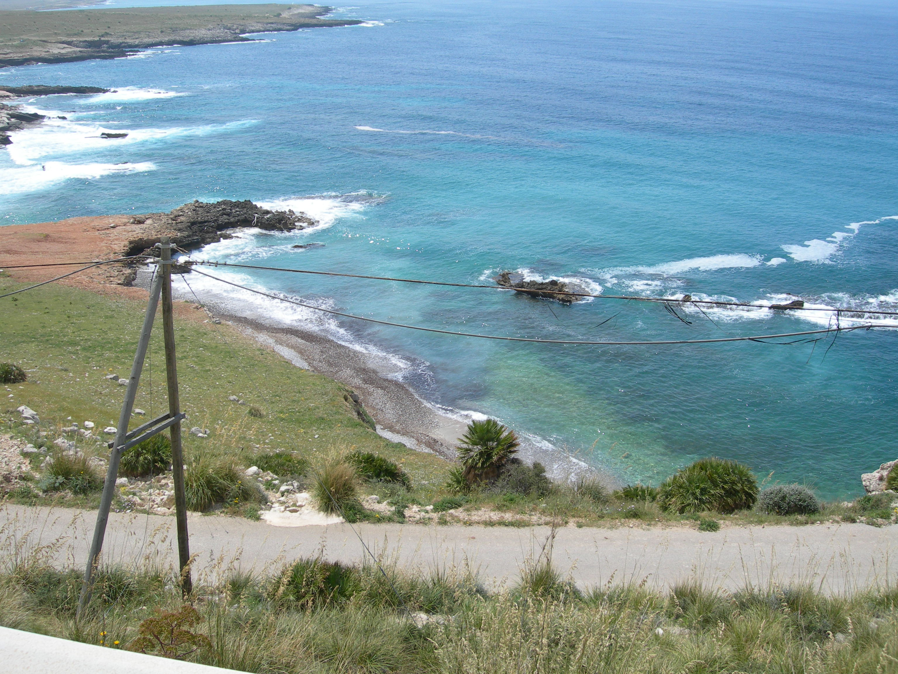 San Vito Lo Capo, Macari beach.